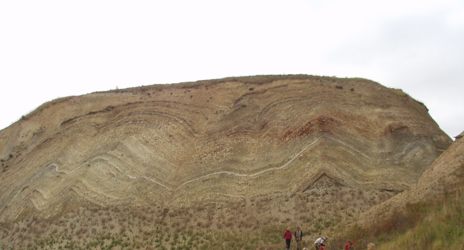 Glaciotectonically deformed diatomite near Ejerslev, Northern Jutland, Denmark